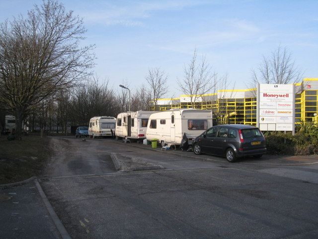 The latest pitch A regular group of travellers find their latest spot at the end of Edison Road. I have tracked them to at least half a dozen sites in the last couple of years around Basingstoke.